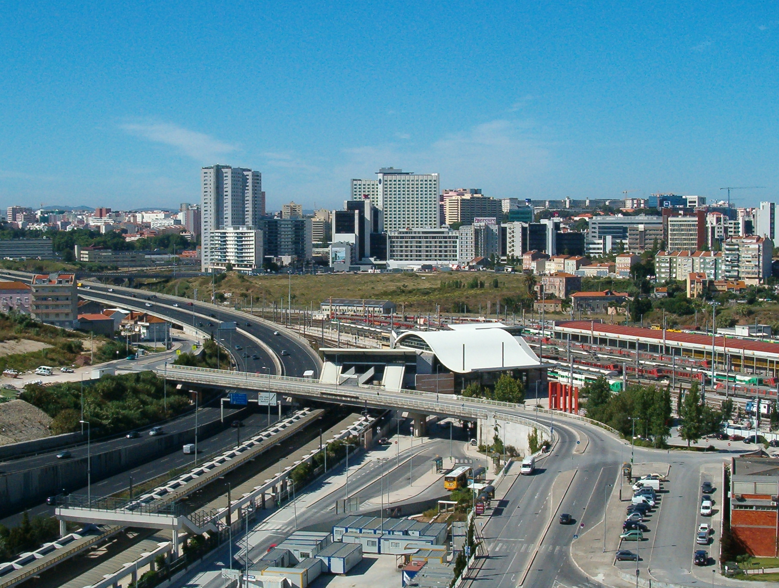 Lisabon,_panoramic_view_of_Campolide